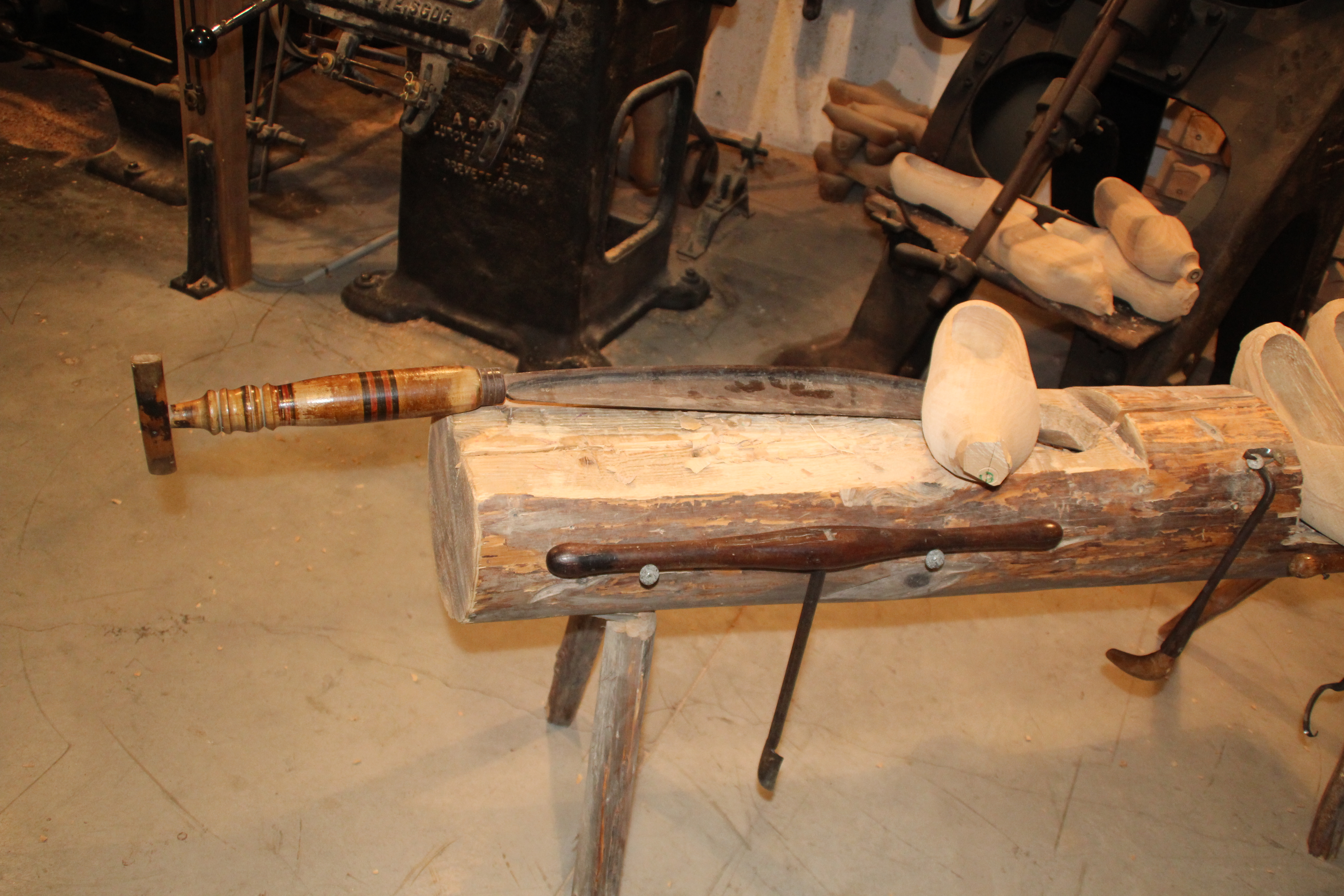 Museum for wood craft and heritage in Labaroche, France.